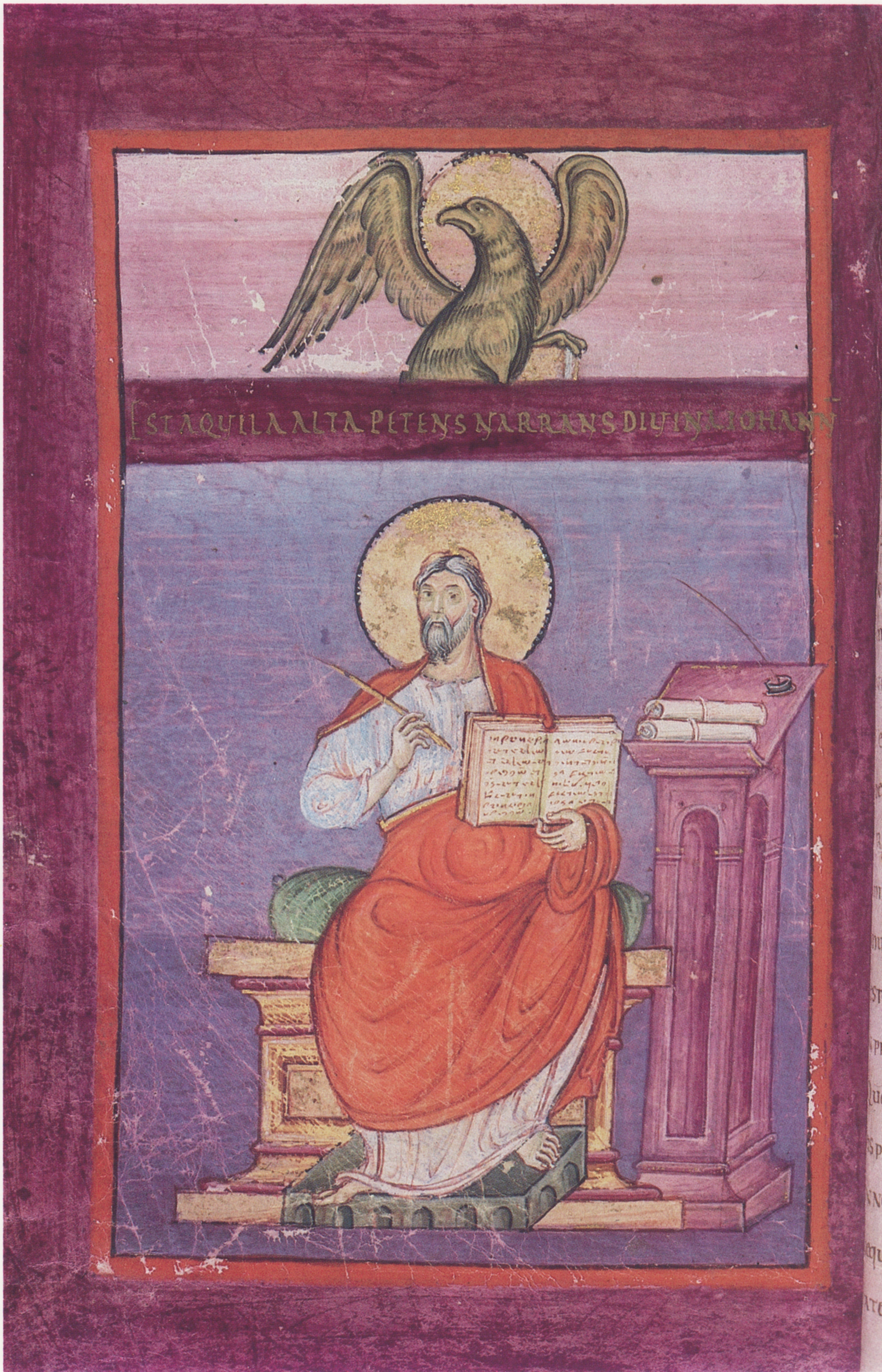 fol. 176v of Strahov MS DF III 3: Johannes